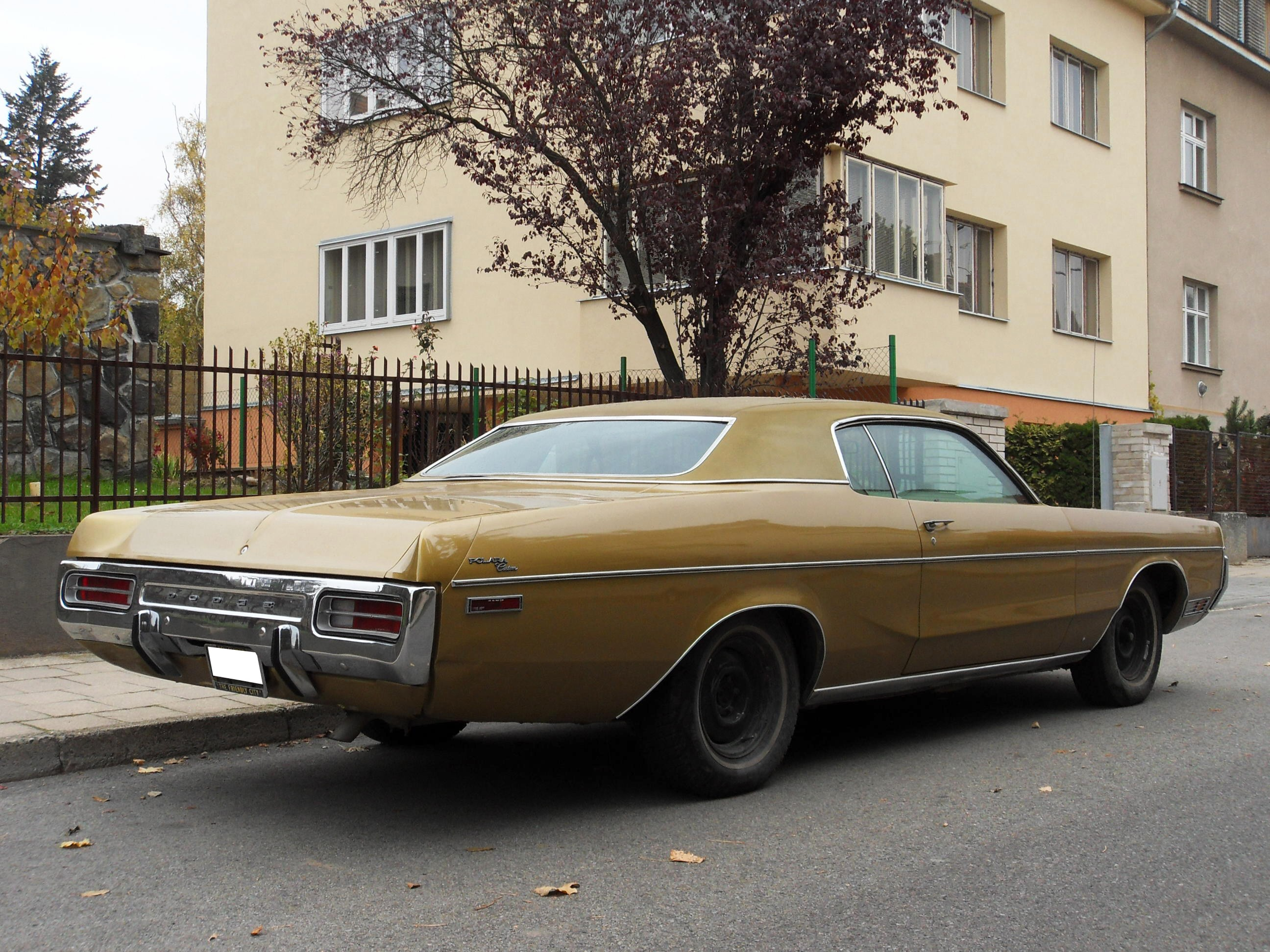 Dodge Polara, Brno, Czech Republic